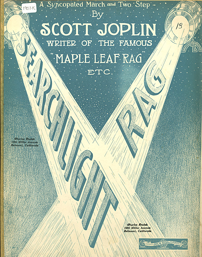 Searchlight Rag by Scott Joplin, sheet music cover from 1907